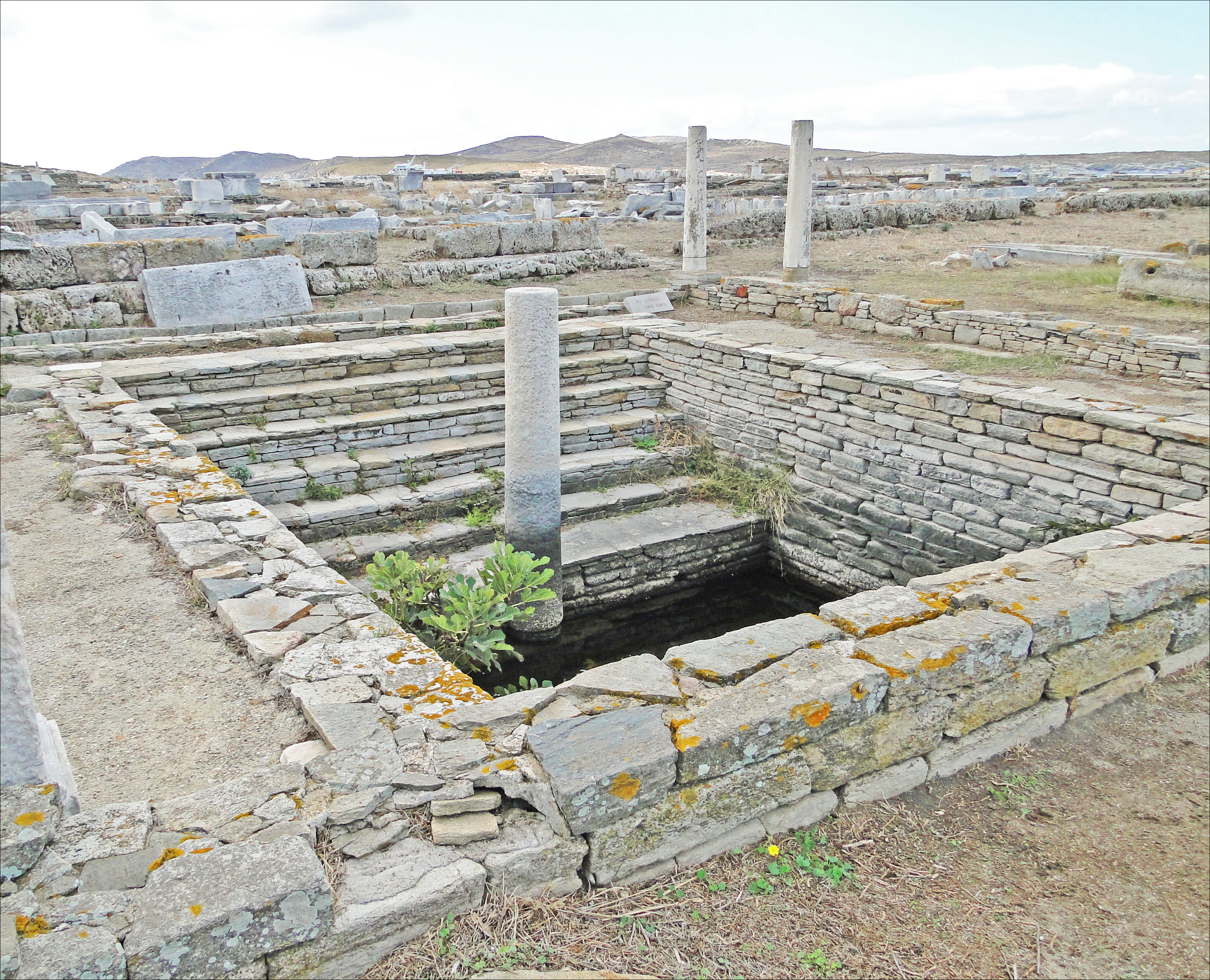 Minoan fountain in Délos.